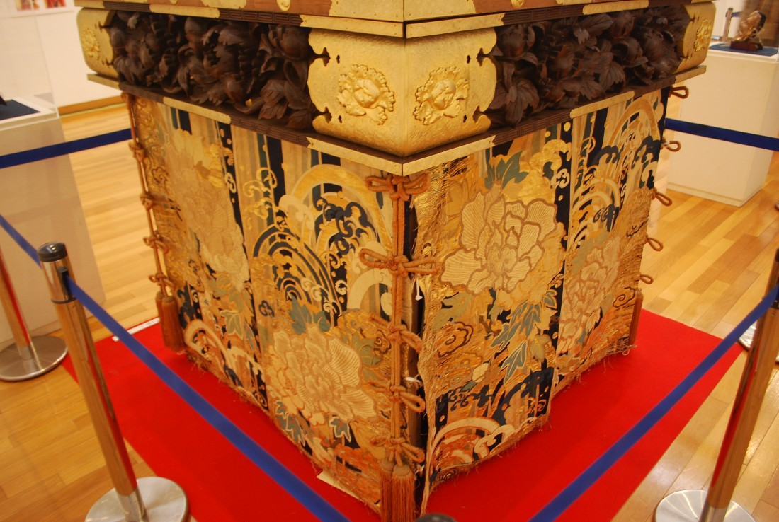 Curtain of "Syakkyo",Yoko-cho,Sakura-city,Japan. A wave and peony.